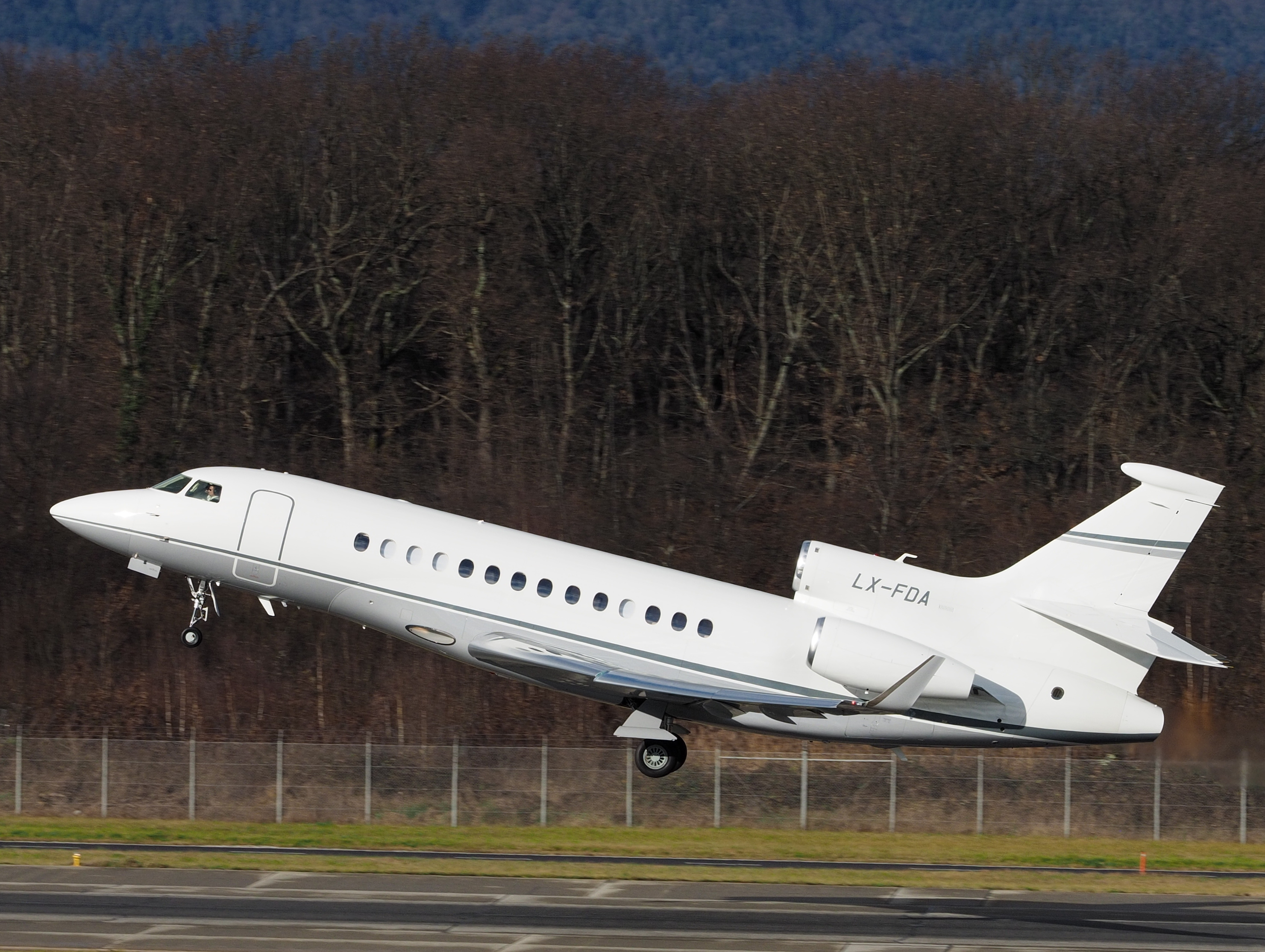 GVA 20.12.2014